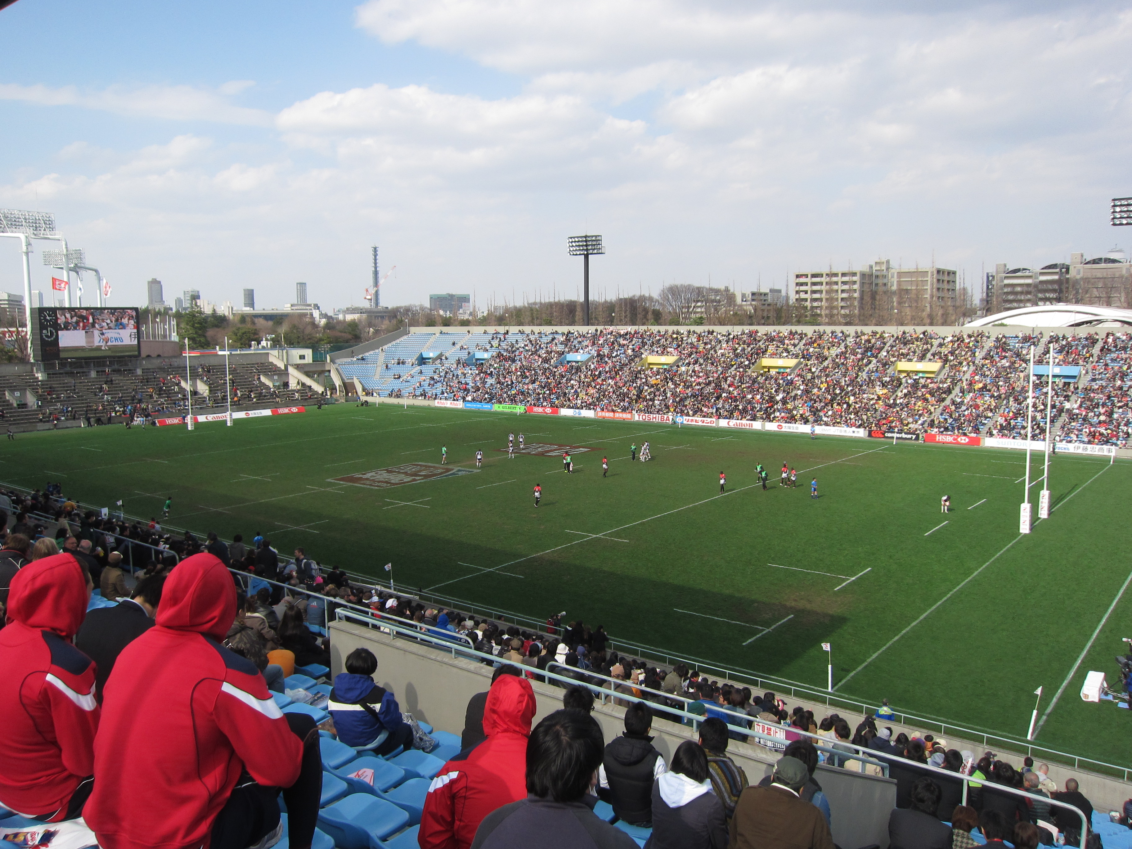 Tokyo Sevens 2012 in Chichibunomiya Rugby Stadium.